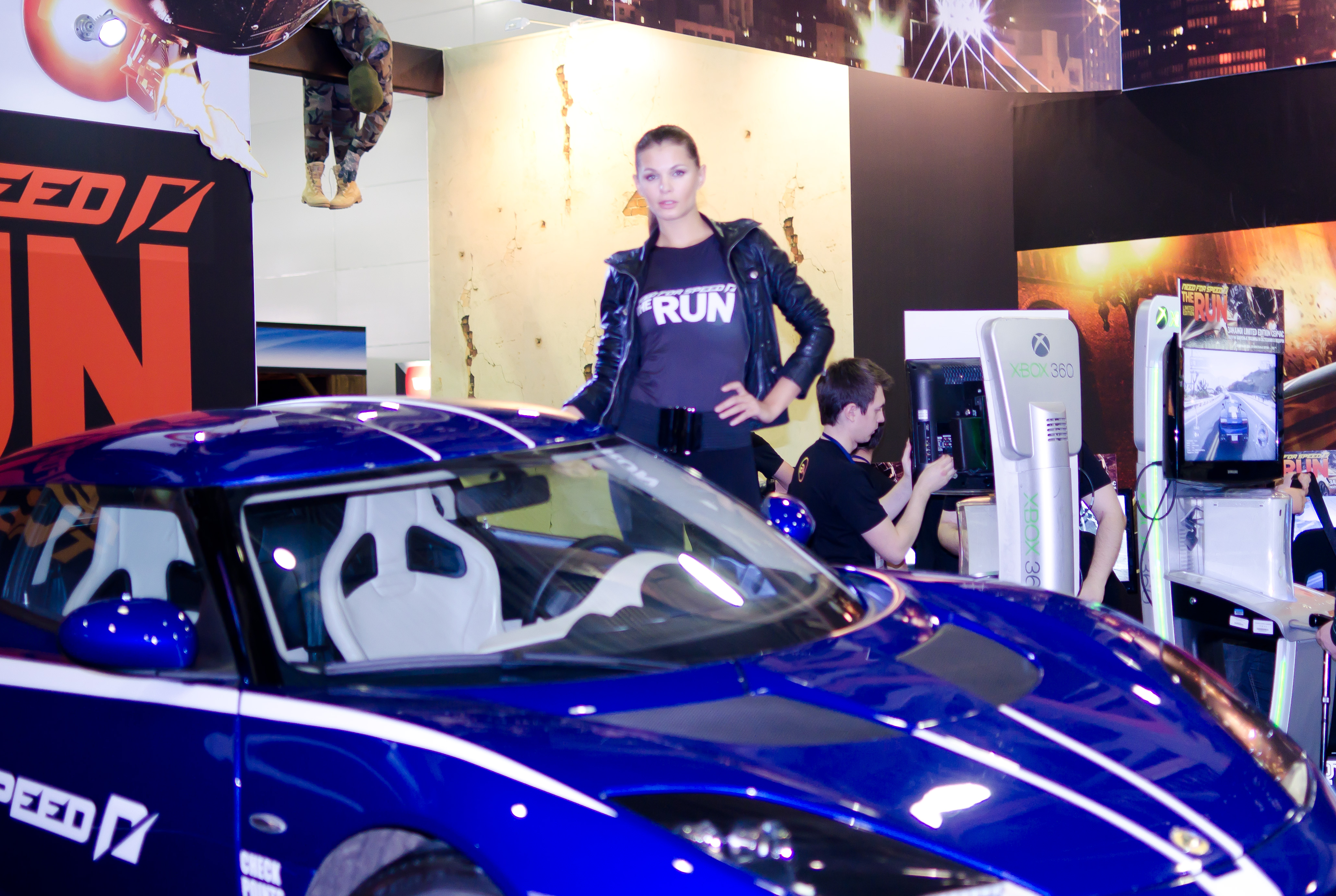 NFS: The Run girl at Igromir 2011